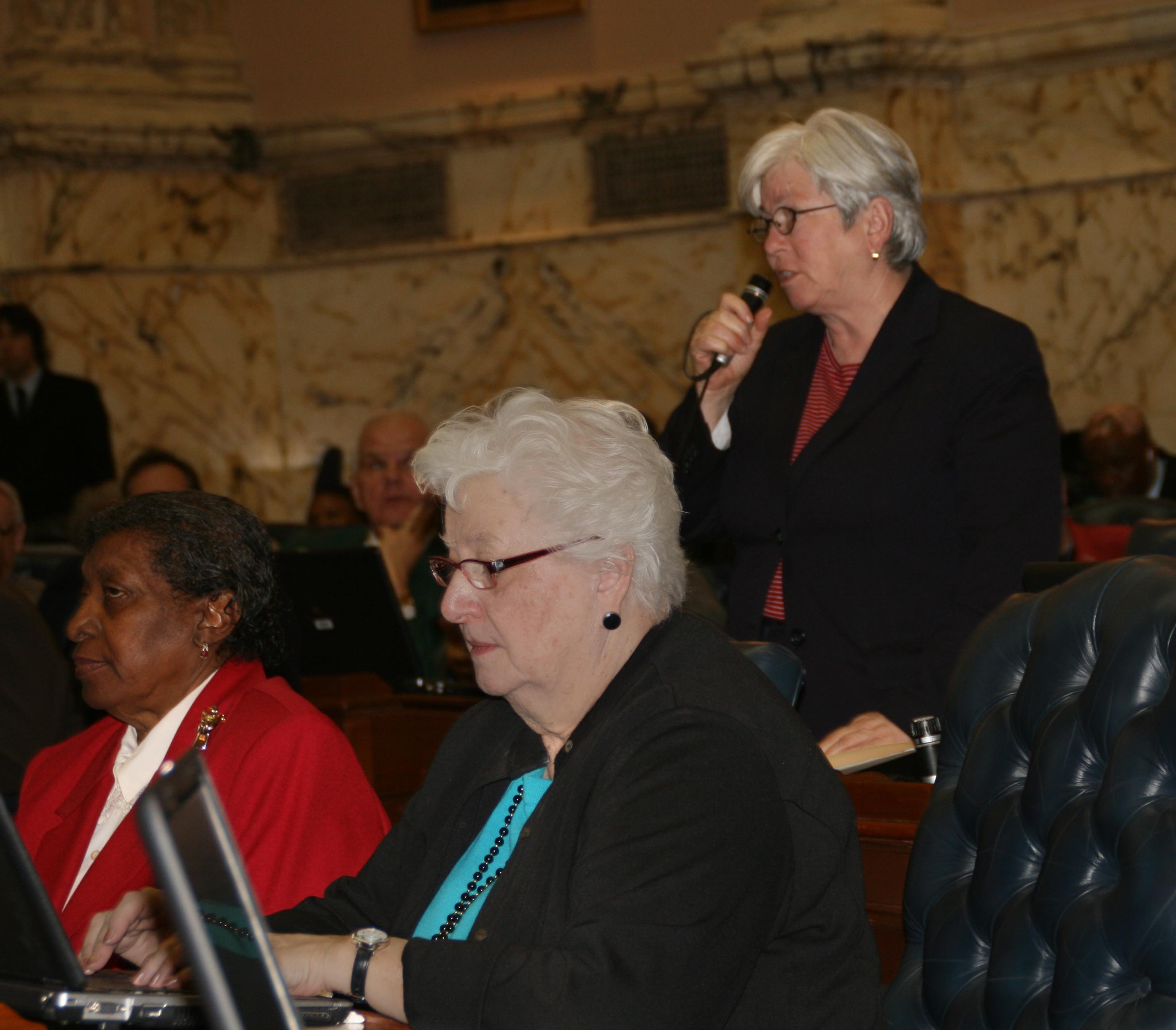 delegate mcintosh on house floor in annapolis